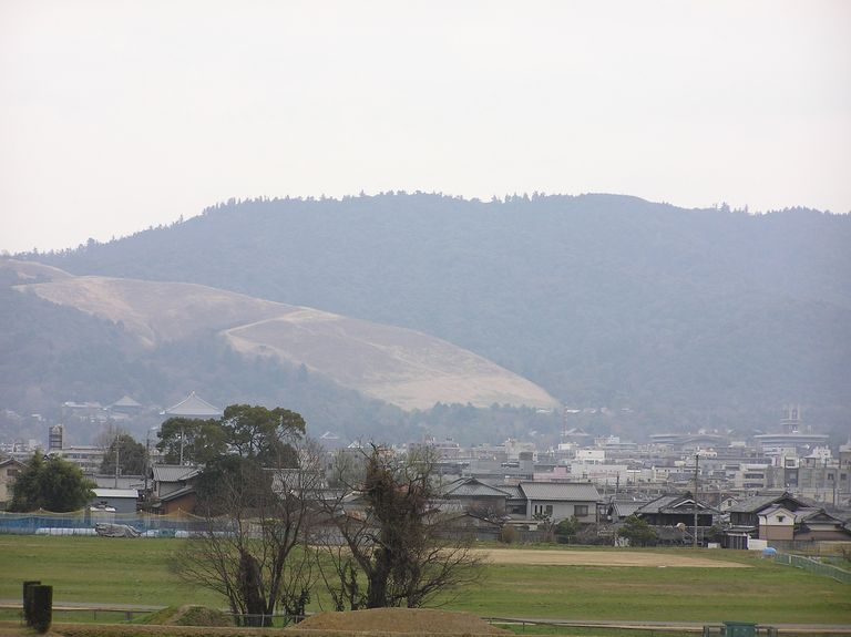 Source: self, OhMyDeer Photographed by: OhMyDeer